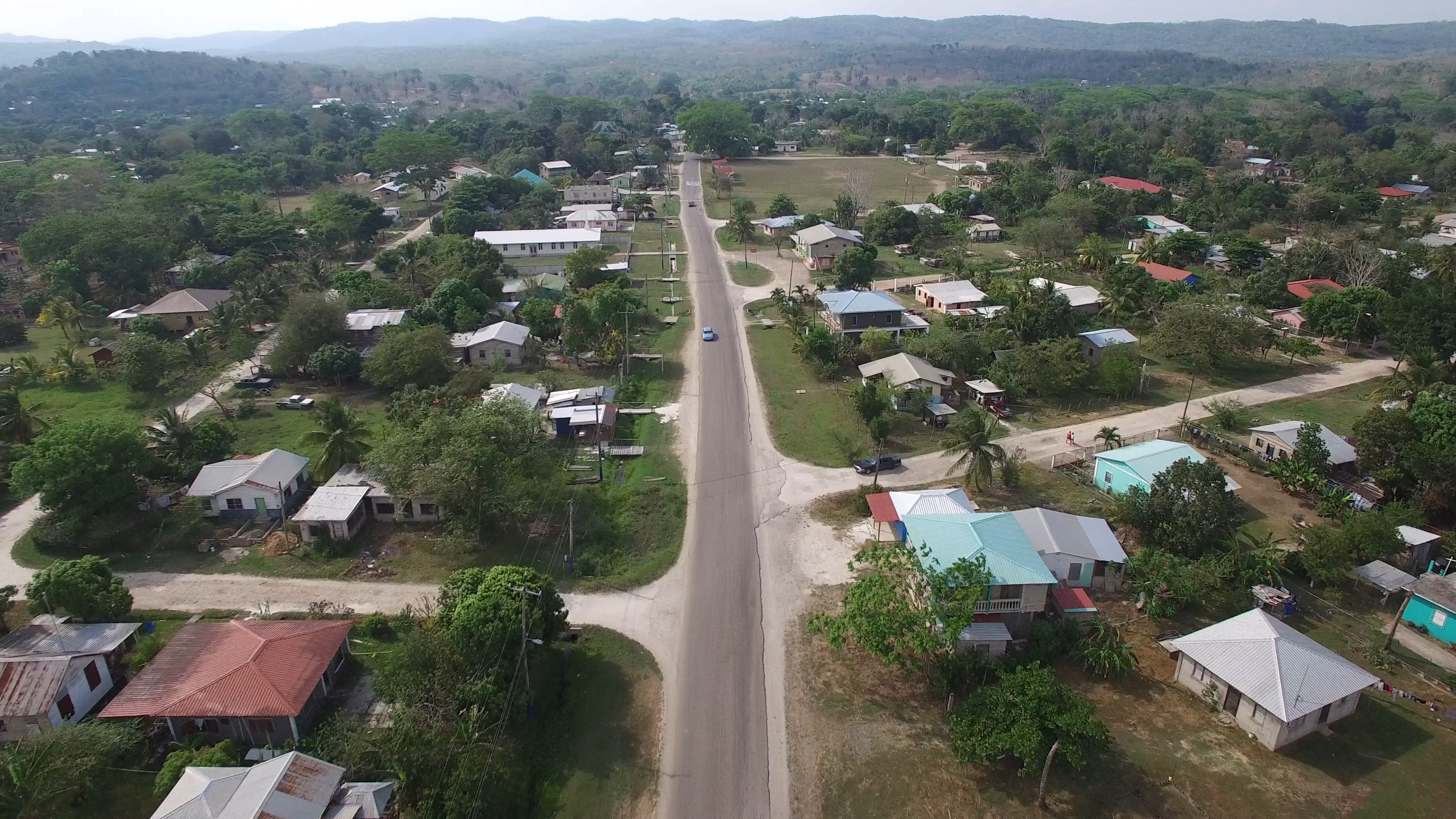 Aerial photograph of Bullet Tree Falls, Belize